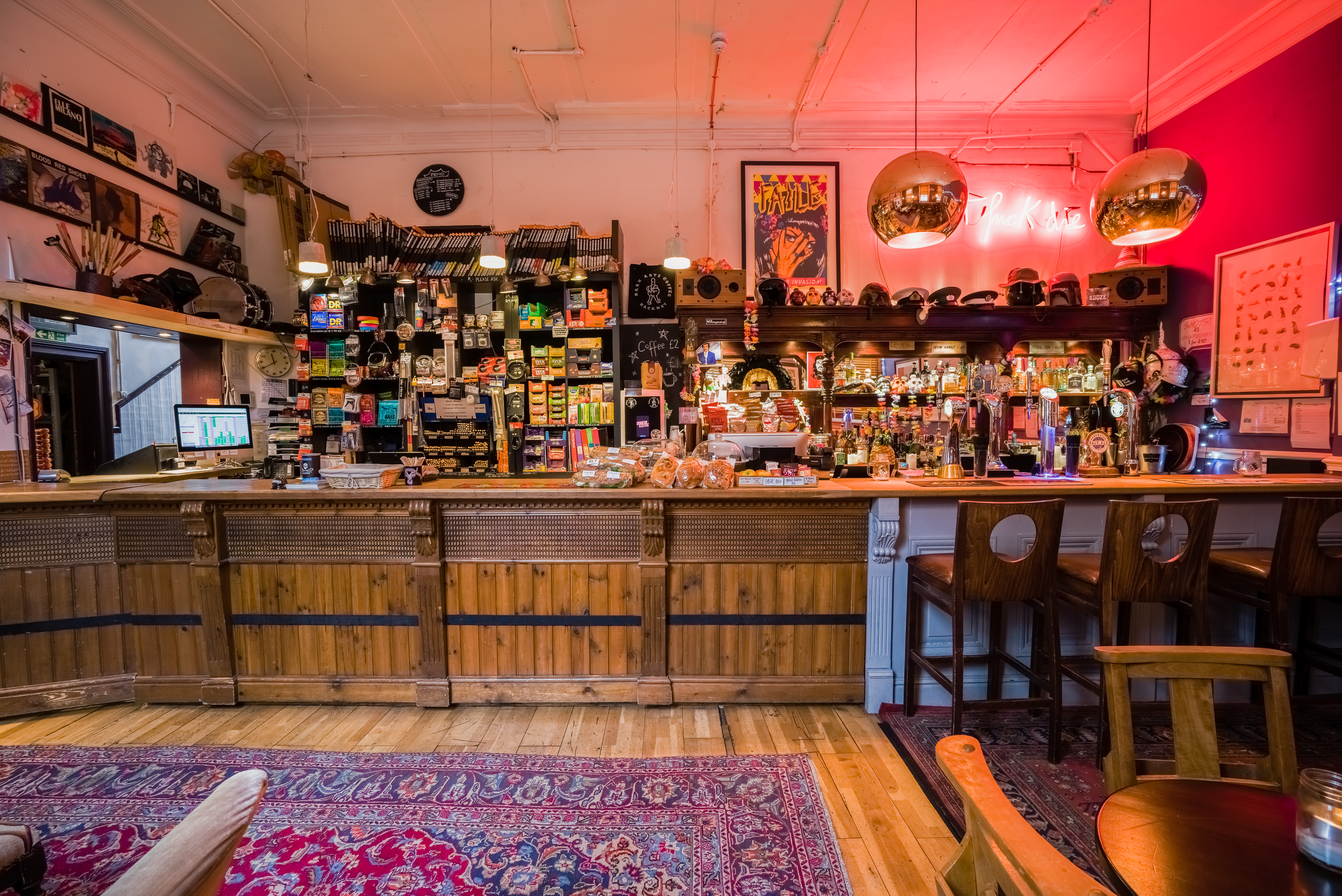 Bar at Brighton Electric Studios